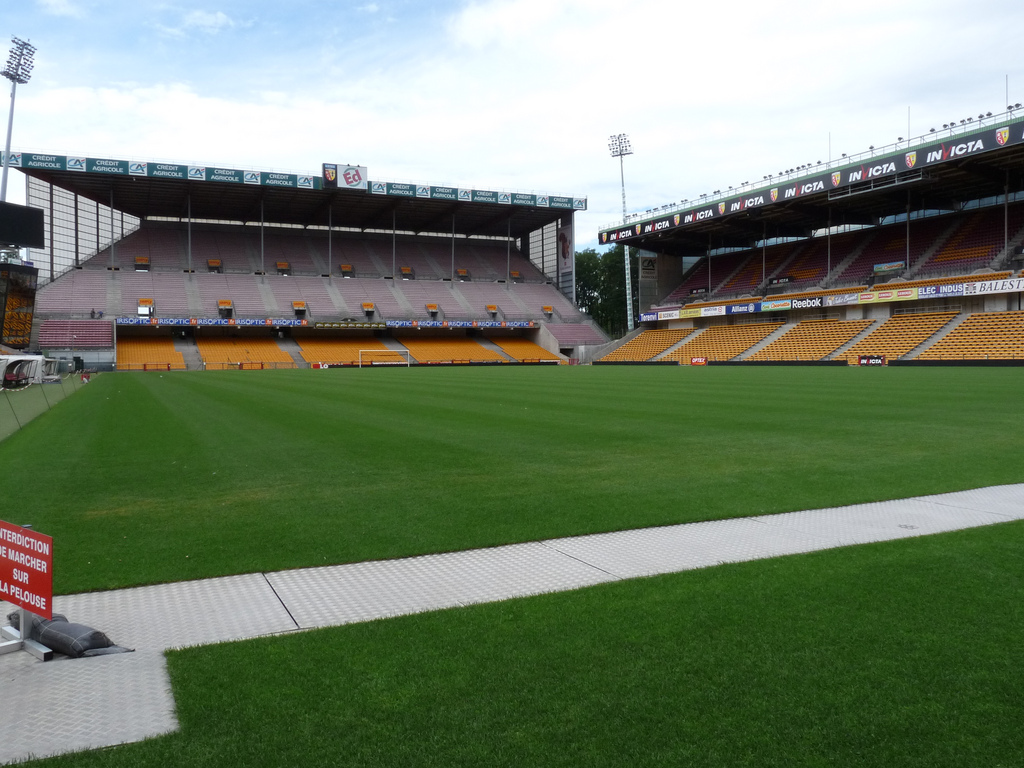 Bollaert stadium empty.